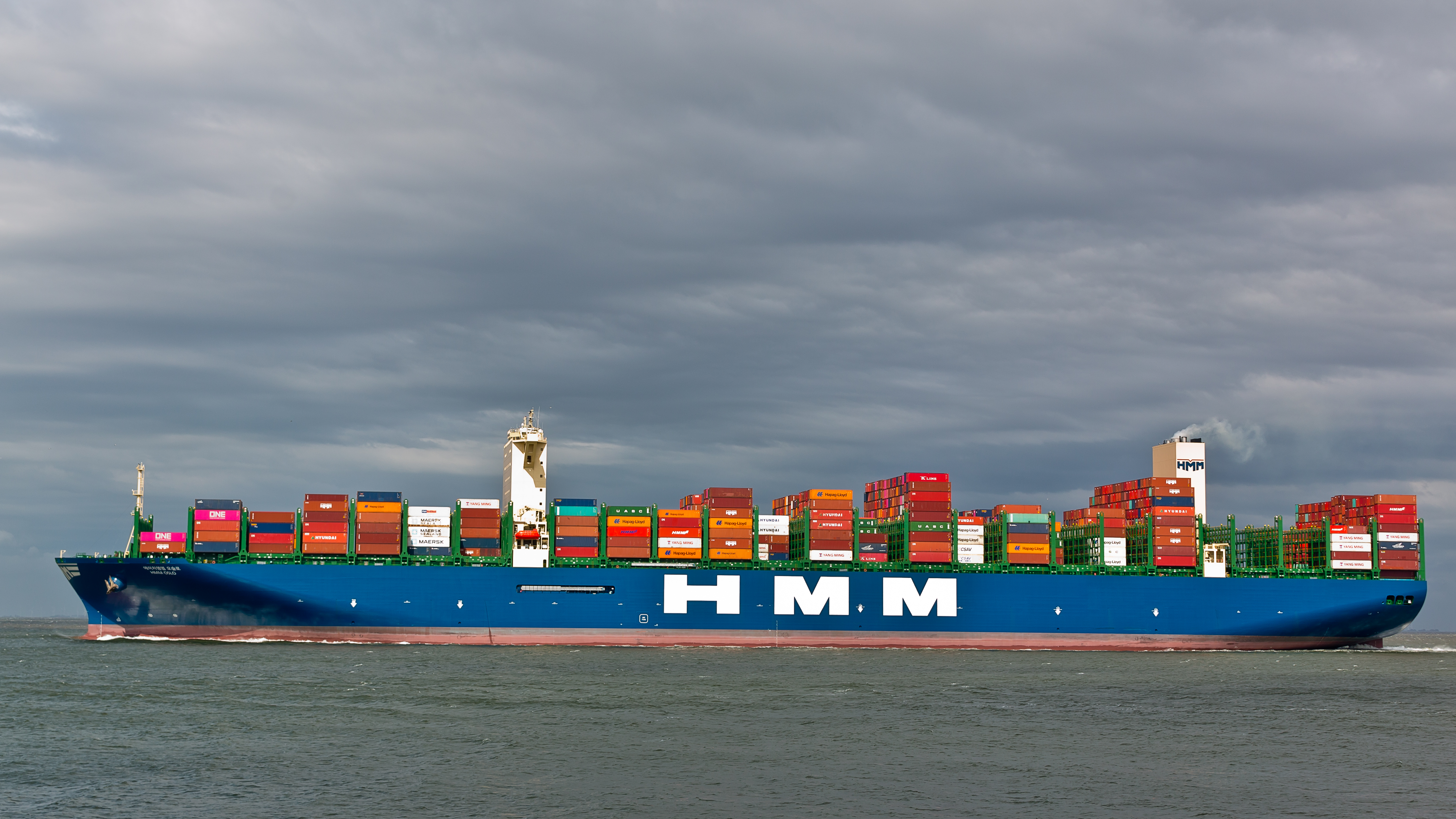 Containership HMM Oslo (IMO 9868326), from Hamburg and travelling to Rotterdam at around 15 knots, off Cuxhaven.